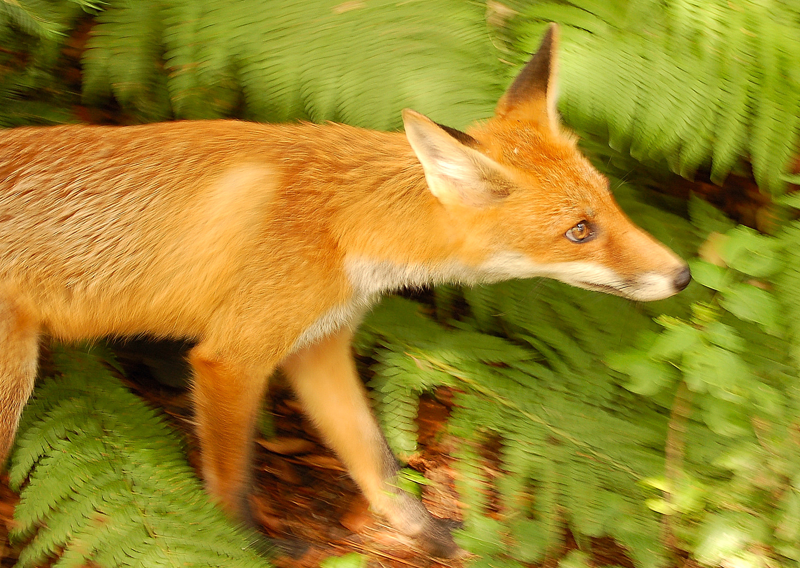 A fox met in Botanic Garden of the Biology Faculty of Warsaw University in the center of Warsaw.